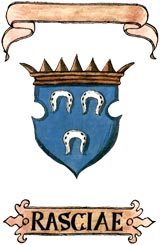 Coat of arms of "Rasciae" (Serbia), in the Fojnica Armorial, dated between 1675 and 1688.